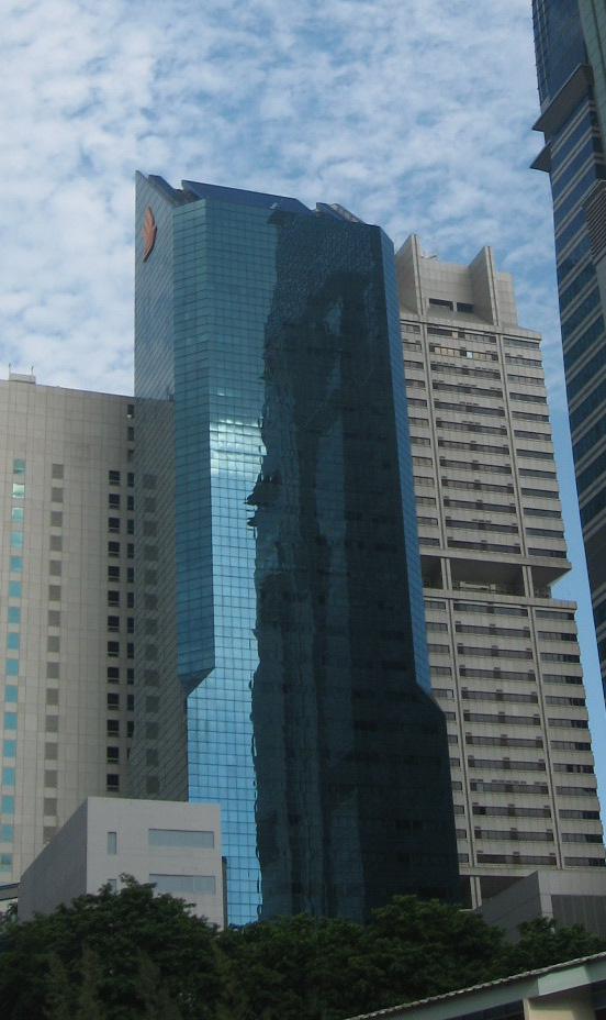 Image of the SIA Building in Singapore cropped from Image:DBS Towers, SIA Building and Capital Tower.JPG